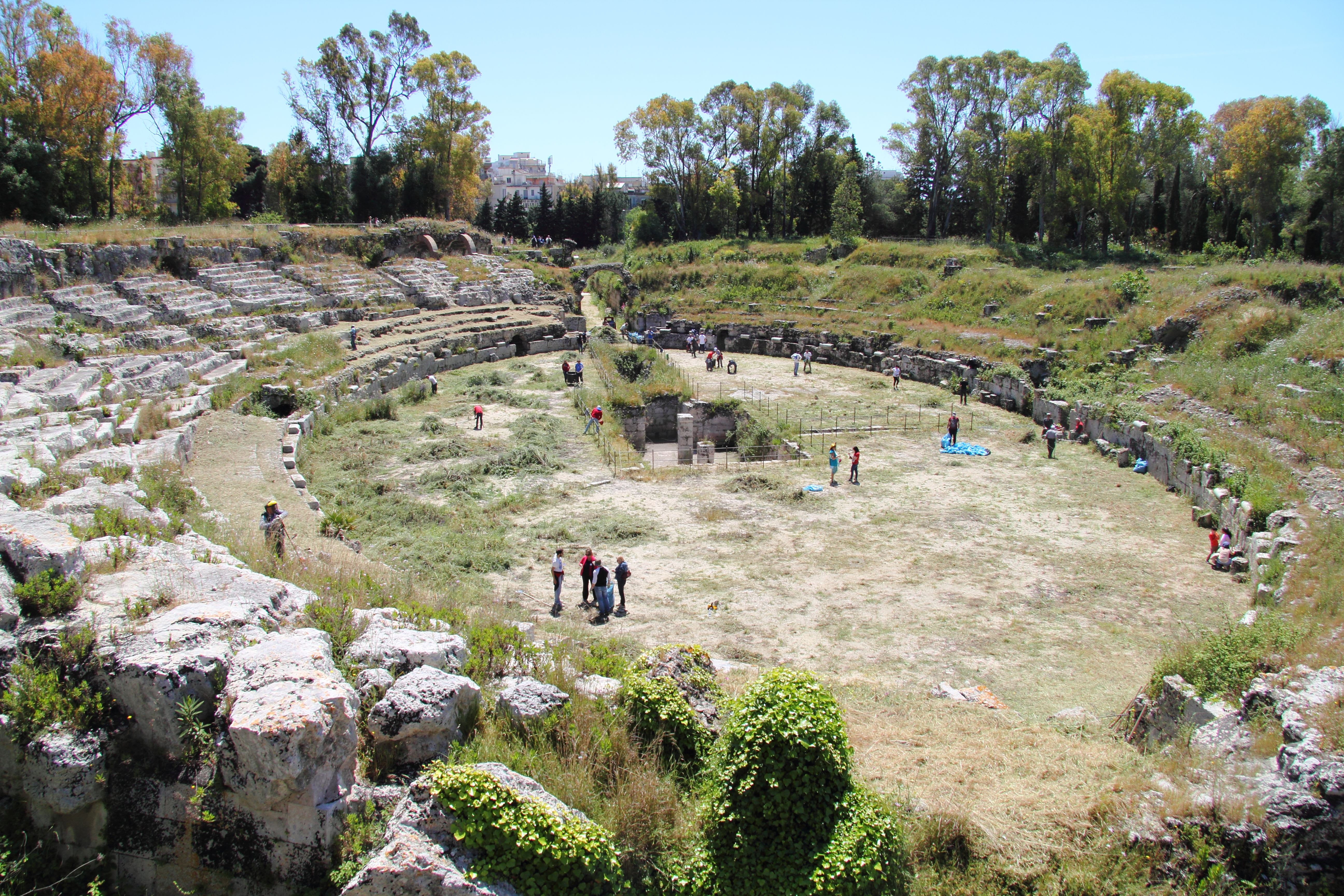 Italy: Syracuse on Sicily, archaeological park